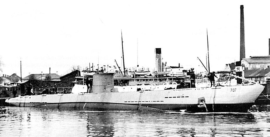 Submarine CV-707 at Crichton-Vulcan shipyard, shortly after sea trial performed by German submarine specialists from Ingenieurskantoor voor Scheepsbouw (IvS).